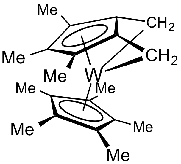 Double tuck-in derivatives of tungstocene